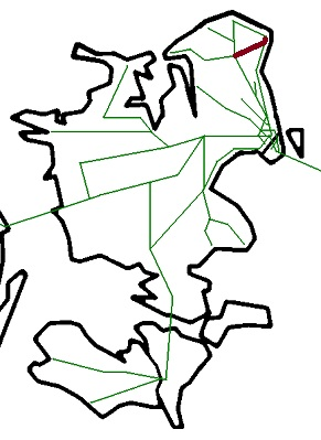 Map of railways on Zealand (Sjælland) in Denmark with the private railway Lille Nord (Little North) between Hillerød, Snekkersten and Helsingør in brown. The part between Snekkersten and Helsingør is a part of the state railway Kystbanen but is shared with the trains of Lille Nord.